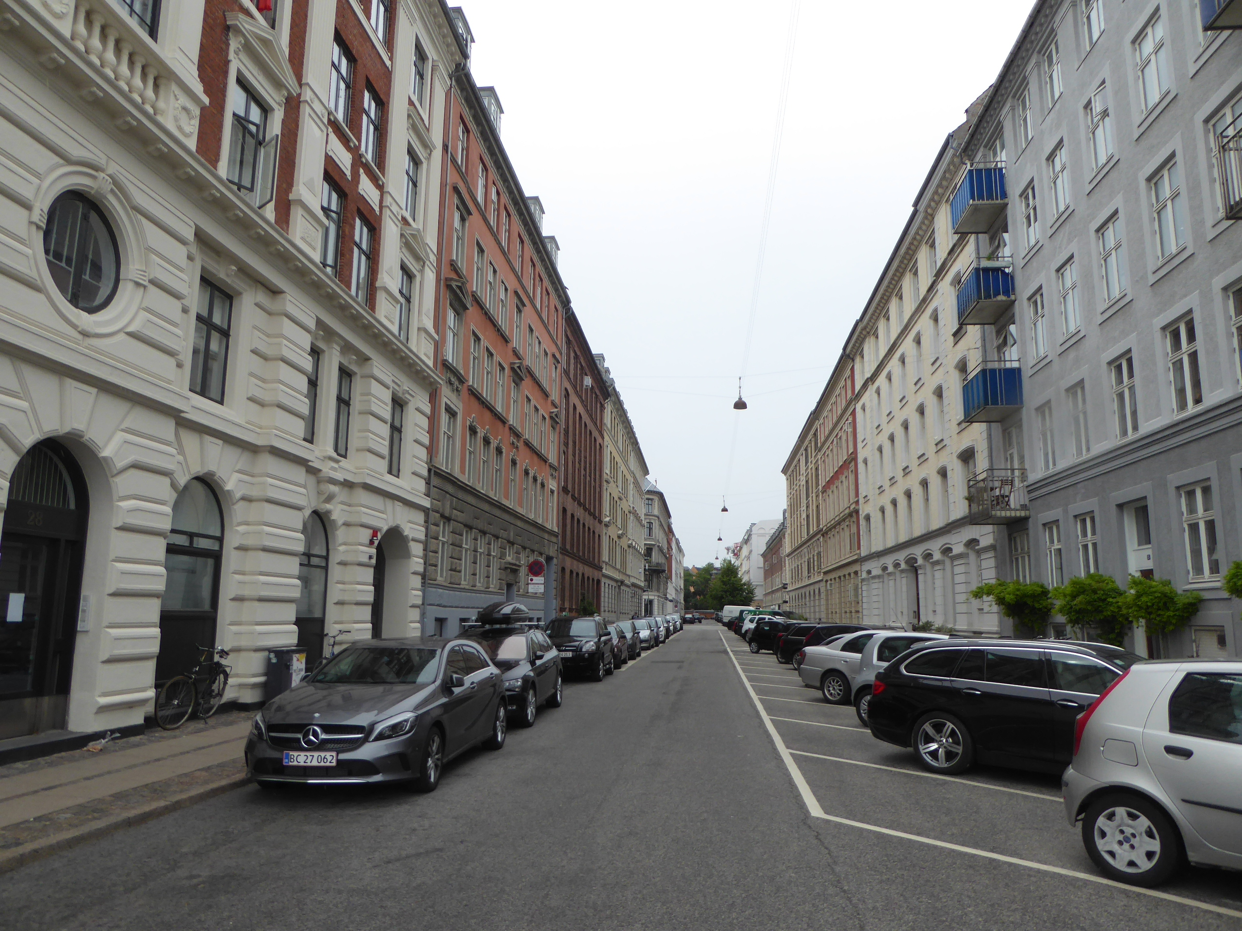 The street Herluf Trolles Gade in Indre By in Copenhagen.